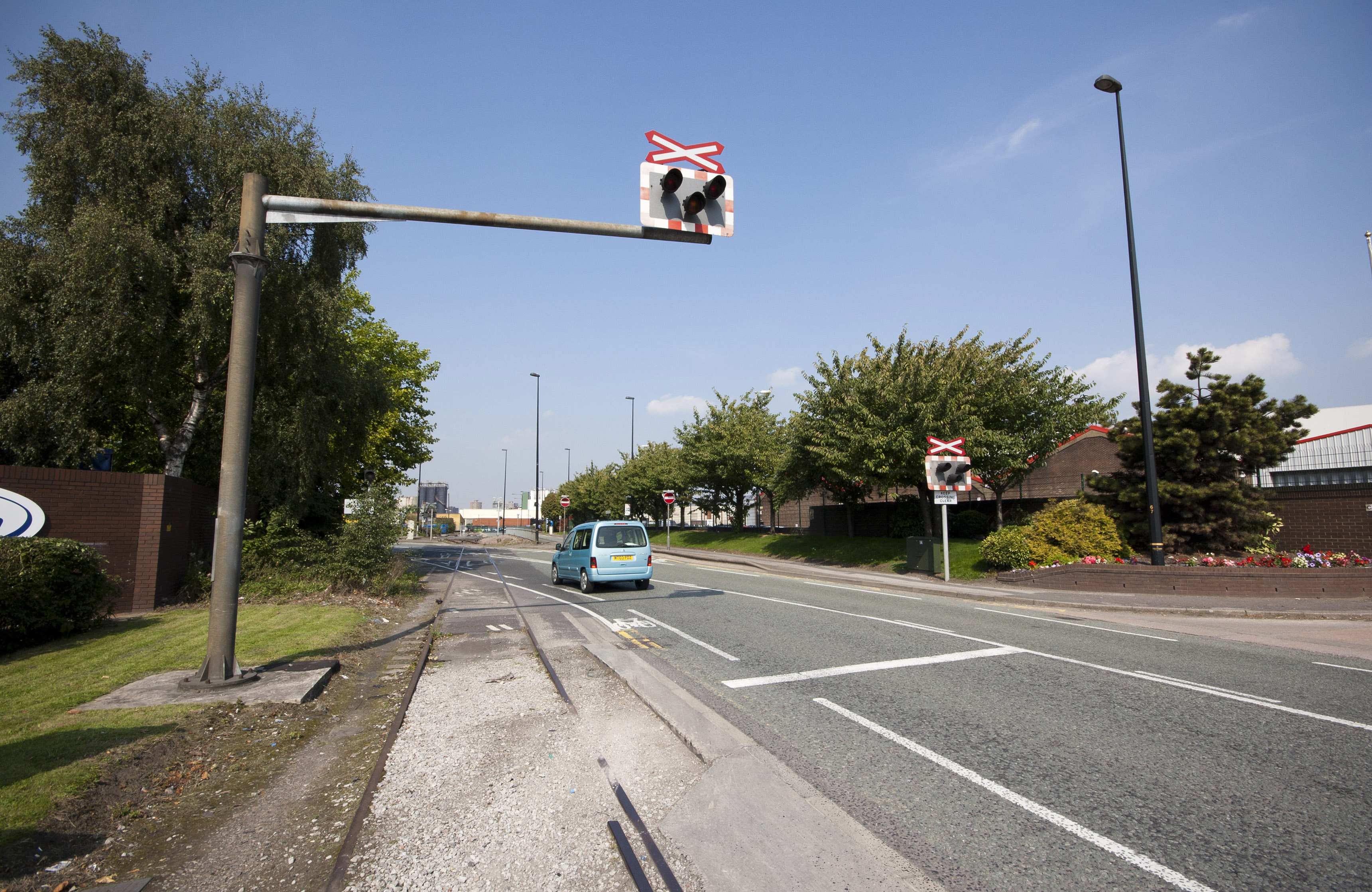 Trafford Park private railway, at the junction of Trafford Park Road and Moorings Road